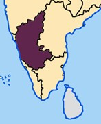 Author: User:Babub Tag: Category:Karnataka Category:Icons